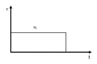 This was performed on Power Point Presentation.